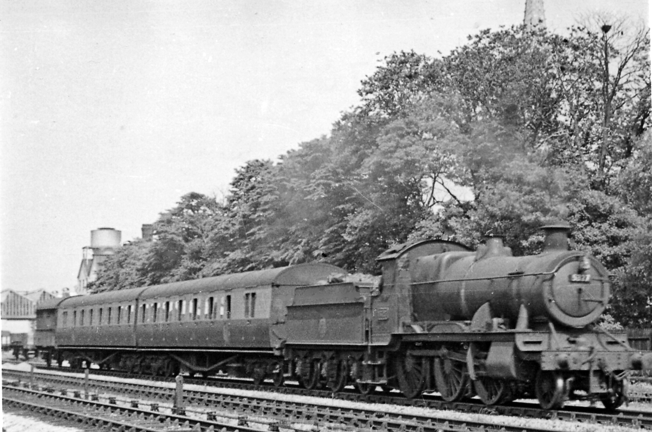 Up stopping train to Bristol passing Swindon Works. View eastward, towards Reading and London: ex-GW London - Bristol/South Wales main lines. The locomotive is Churchward 43XX 2-6-0 No. 5327 (built 9/17, modified to the heavier version as No. 8327 2/28-8/44, withdrawn 7/56). Behind the trees (above the locomotive's funnel) is the spire of the parish church built by the GWR through public subscription.